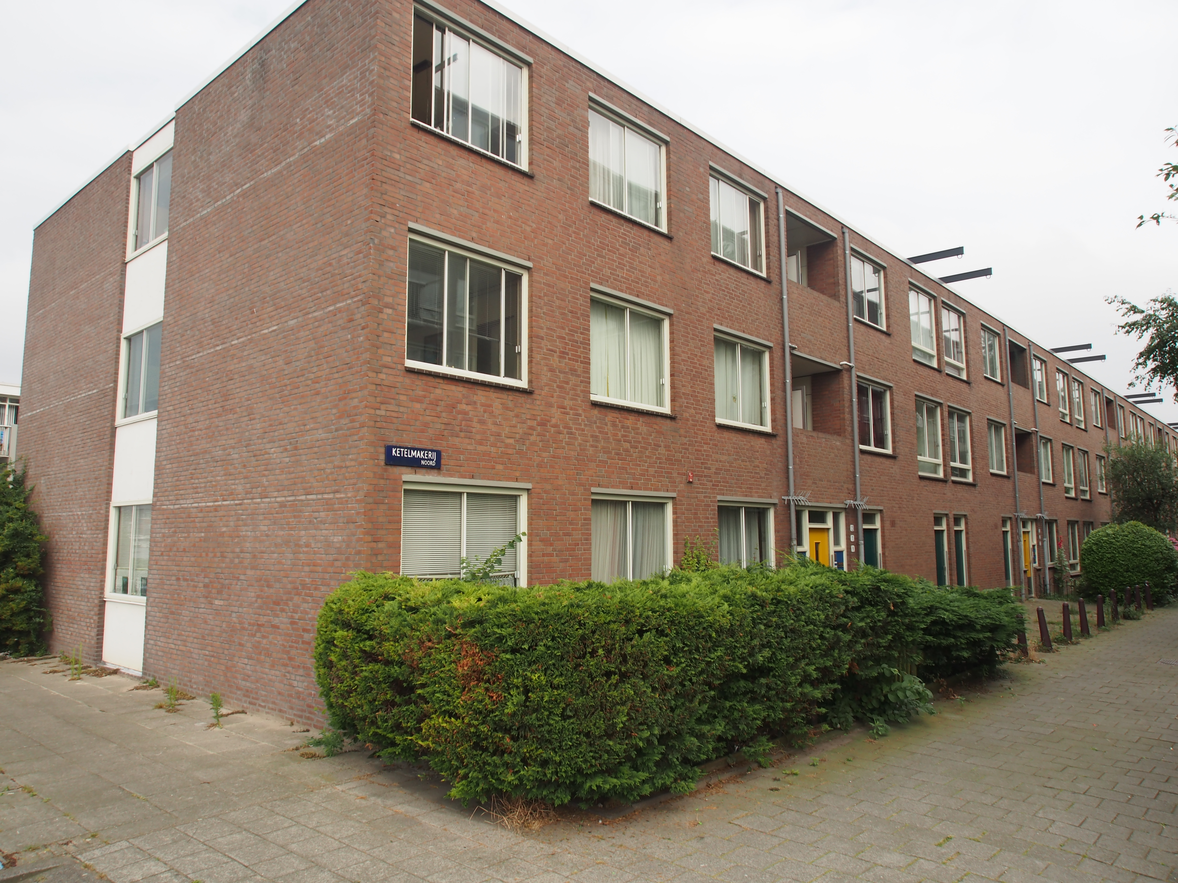 Photographed at Amsterdam.